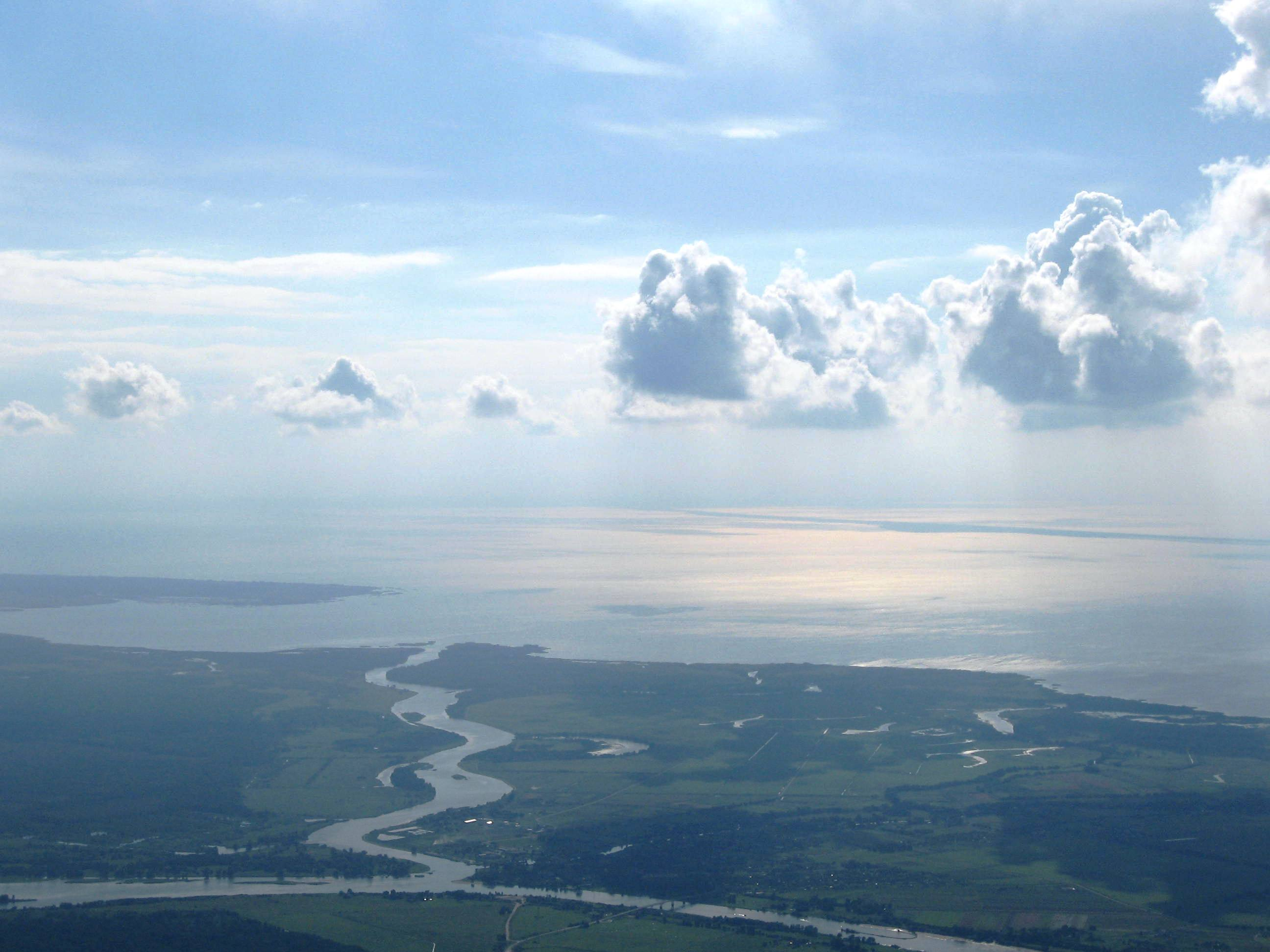 Delta of Neman River and its distributary Skirvytė flowing into Curonian Lagoon